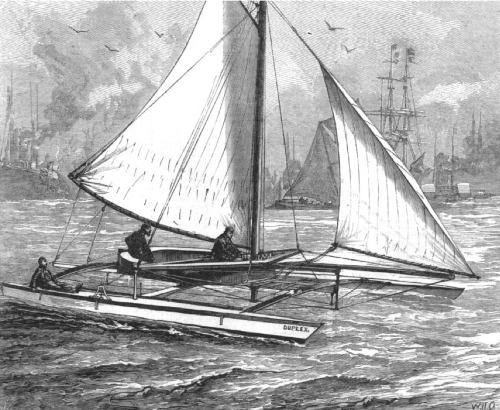 An old engraving of a Duplex Catamaran built in Rhode Island USA, for Mr. Henry N. Custance, honorary treasurer of the Corinthian Yacht Club, August 1880. The engraving shows the vessel near her moorings on the River Thames at Erith. The catamaran was 33 feet long, with a draught of 3 foot, and had been recorded making 23 mph (with the tide) in the Lower Hope. Duplex was built in 1877, and was 31 ft LOA.